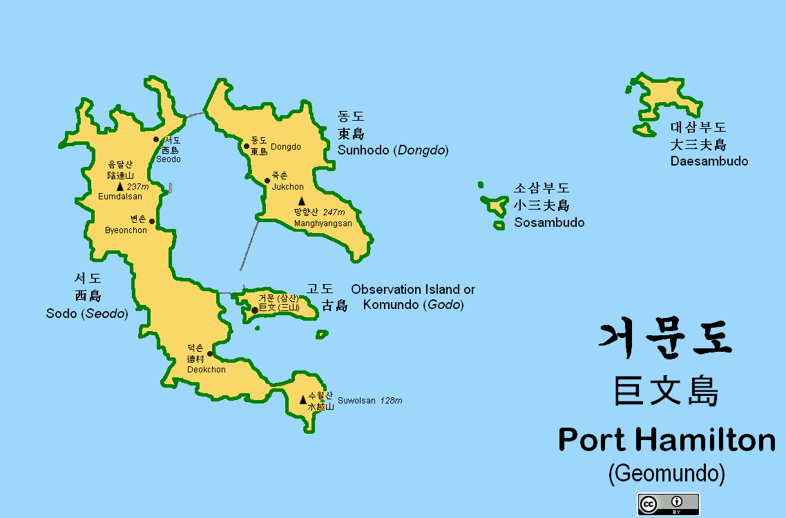 Map of Port Hamilton (Komundo/Geomundo), Korea